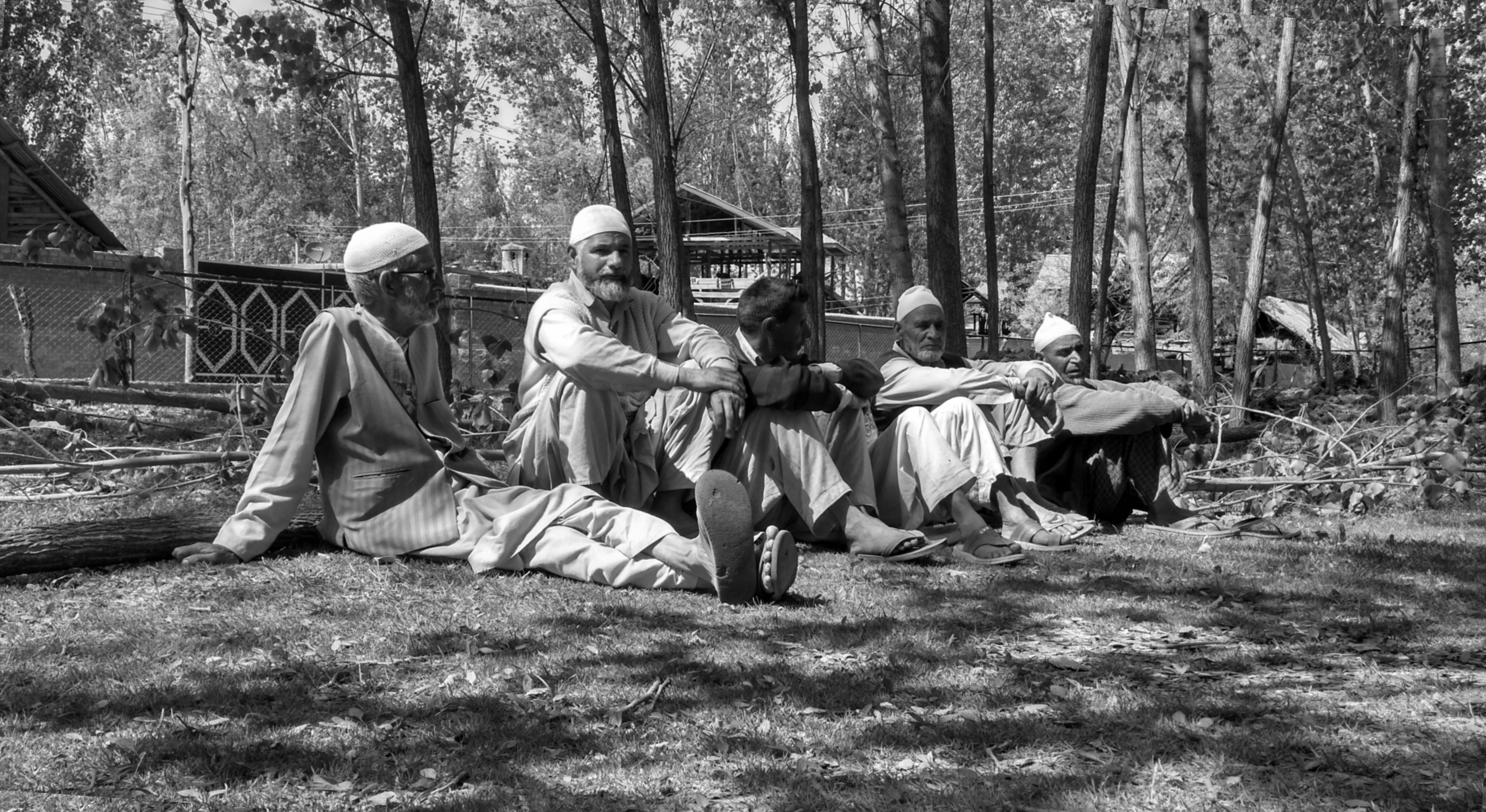 Old memory